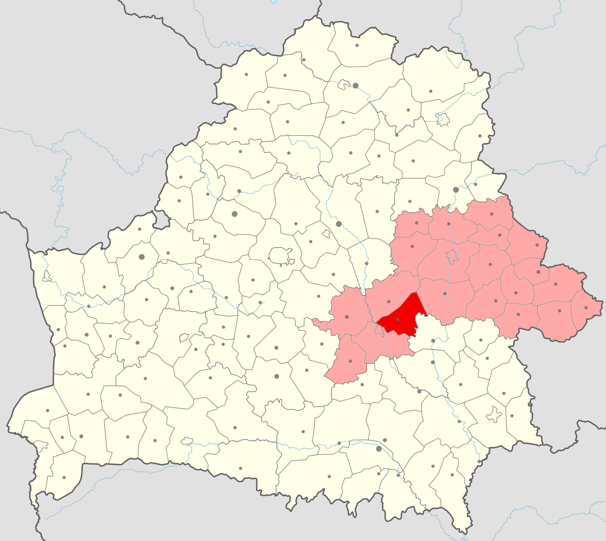 Location of Kiraŭski rajon (red) in Mahilioŭskaja voblasć (light red) in Belarus.